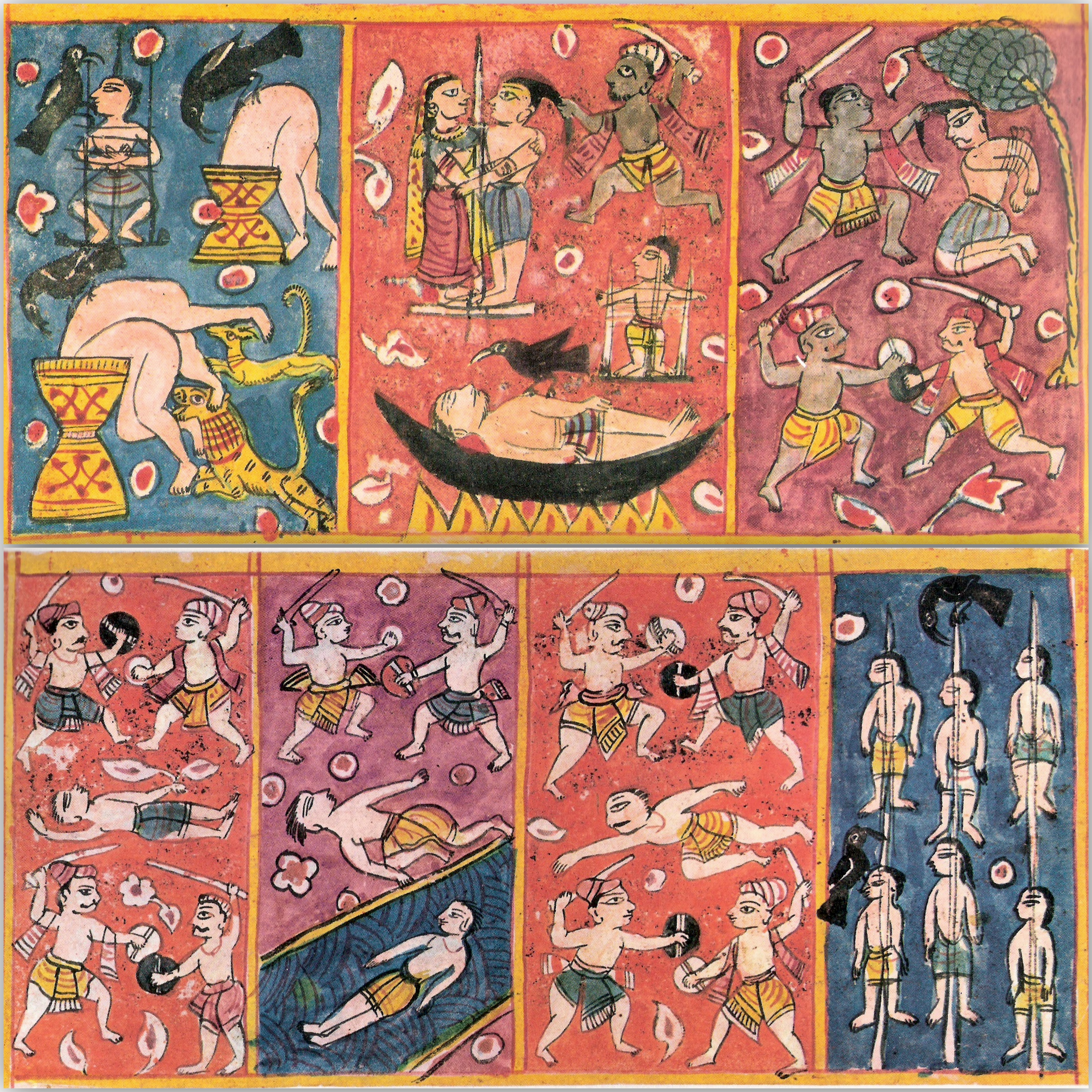 Punishments in Naraka as per Jain cosmology. Gouache on paper. XVIIth century from Gujarat.